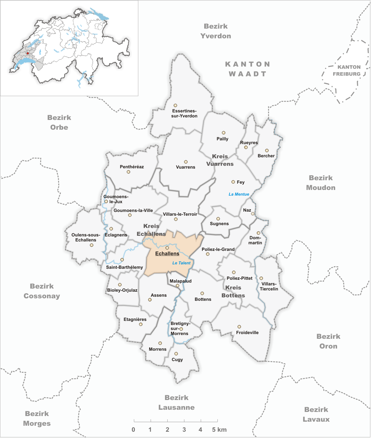 Municipality Echallens